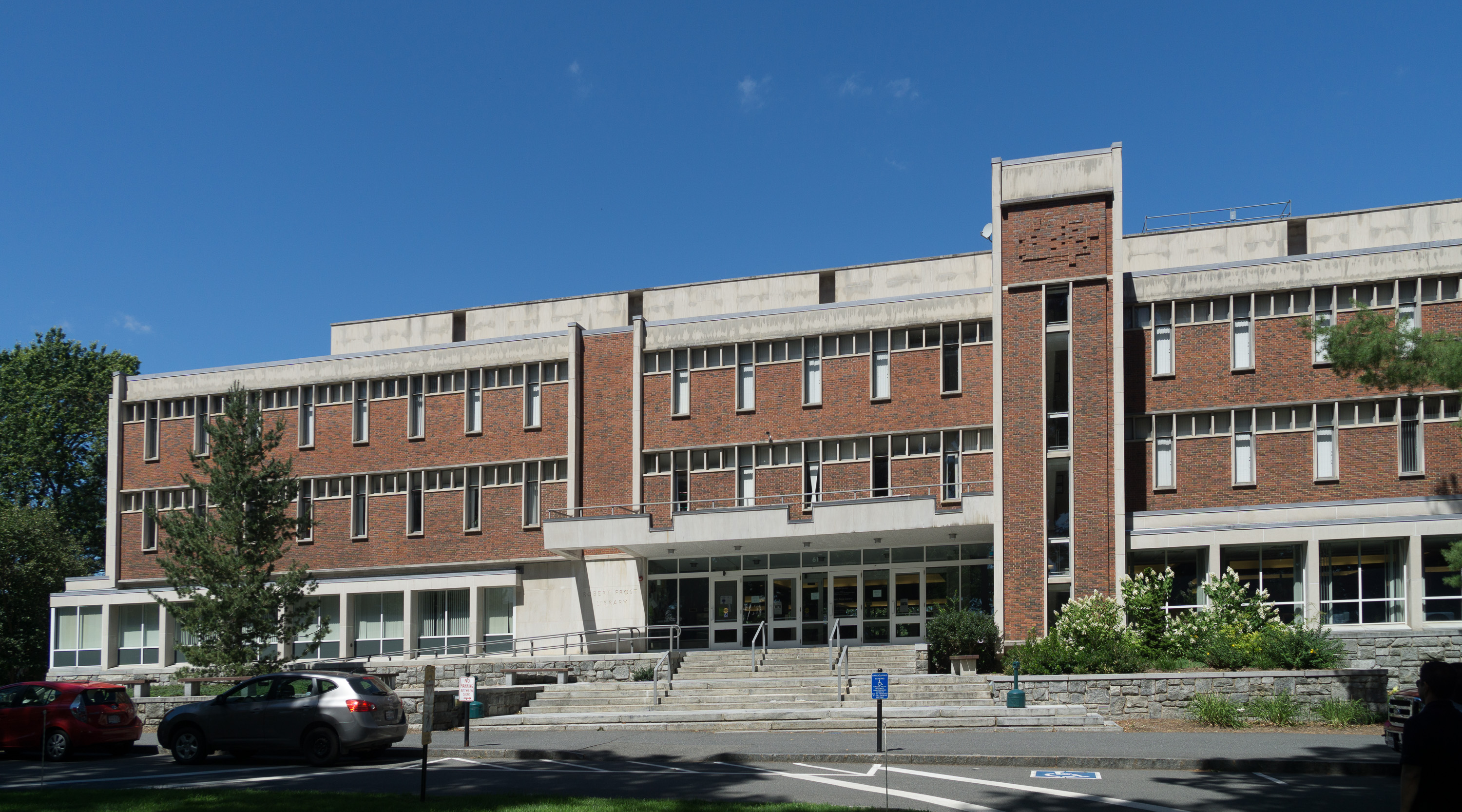 Frost Library, Amherst College. Its groundbreaking in 1963 was attended by President Kennedy. Opened 1965. Architects: Philip M. Chu, Philip O'Connor & Kilham.